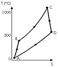 The Brayton cylcle that takes place in a gas turbine. S for entropy, t for temperature.